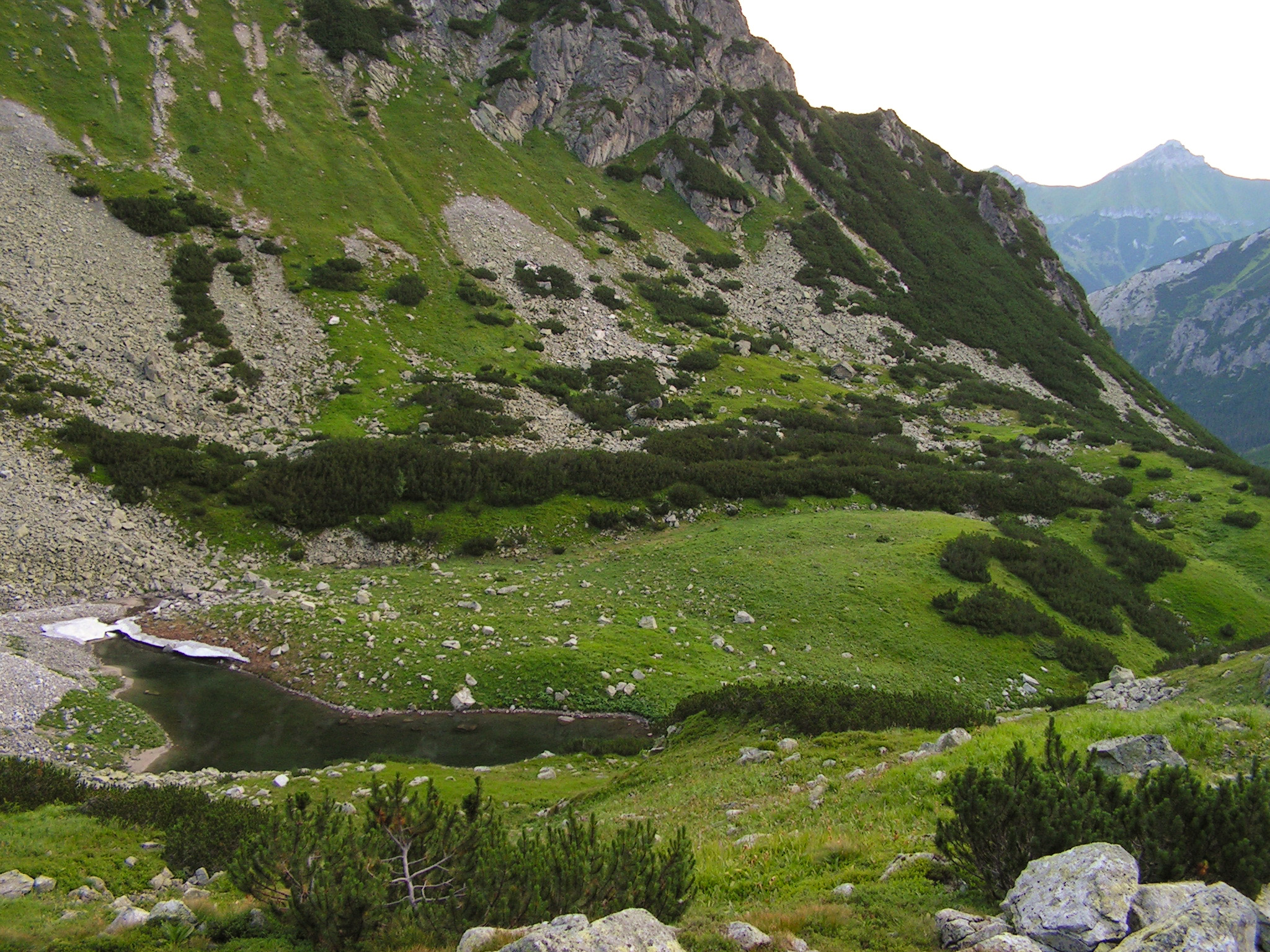 Malé Žabie Javorové pleso